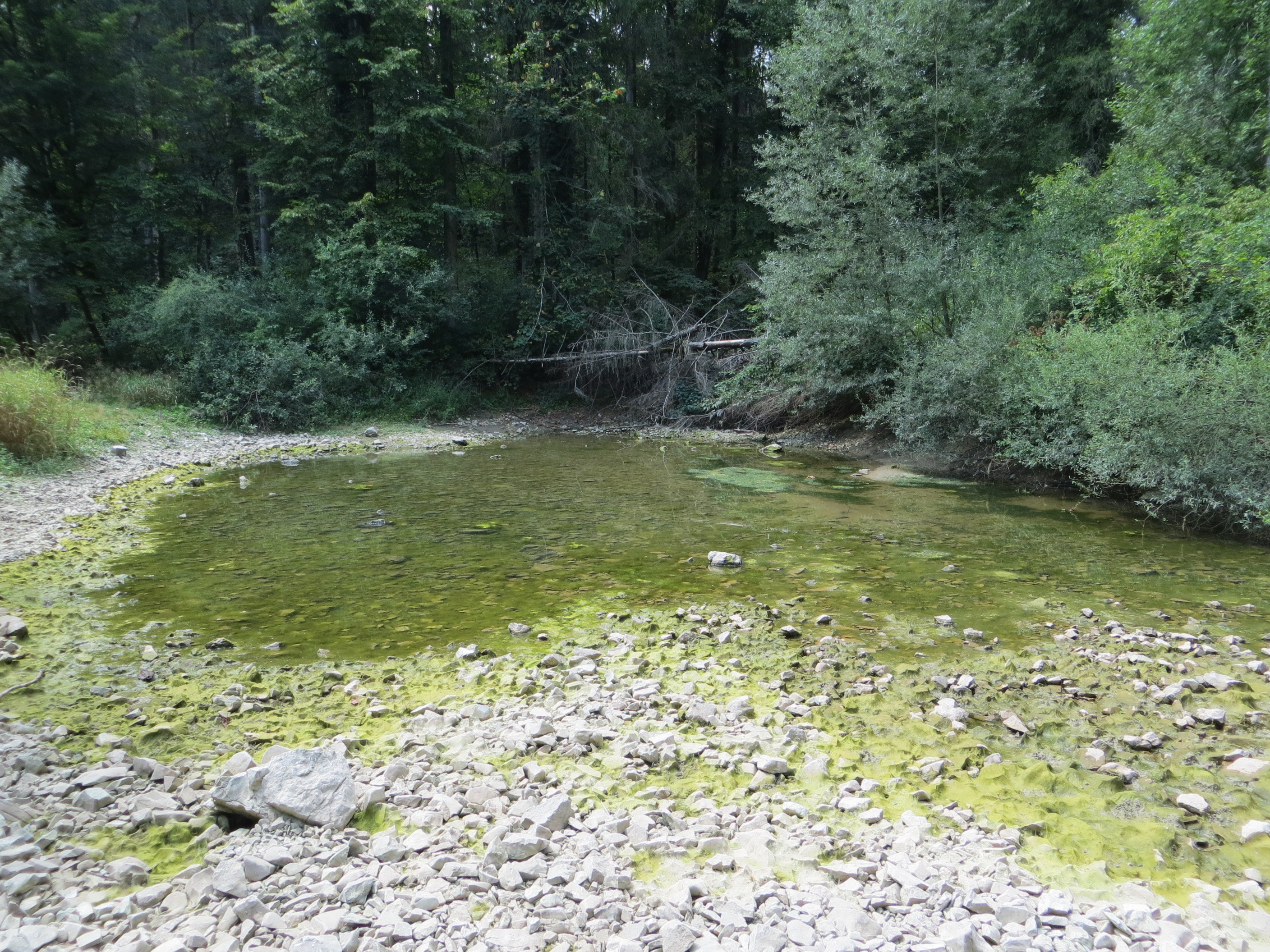 Little Spring (Malo okence; part of Retovje Springs) in Mirke, Municipality of Vrhnika, Slovenia